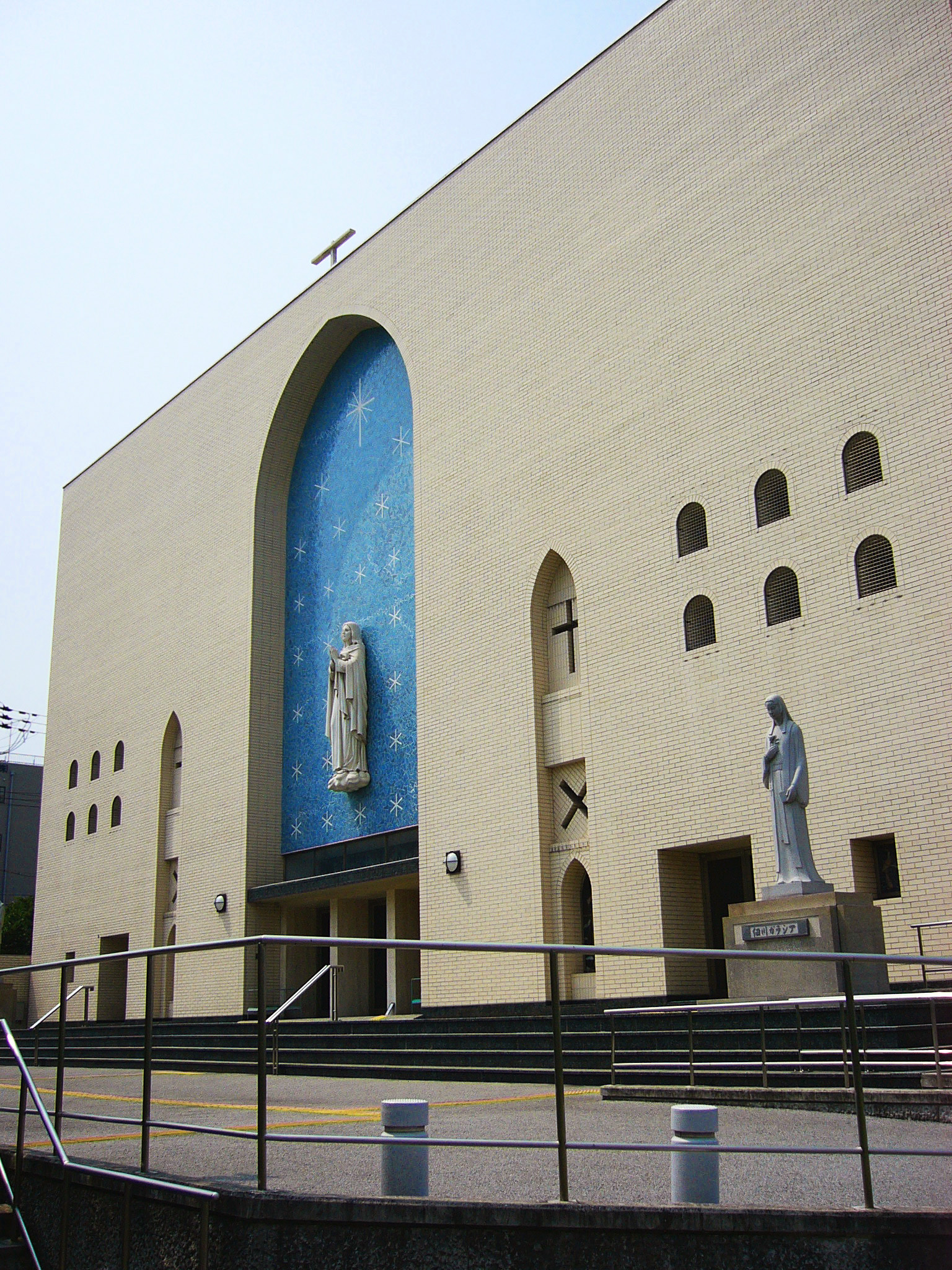 St. Mary's Cathedral, Osaka in Osaka, Osaka prefecture, Japan.